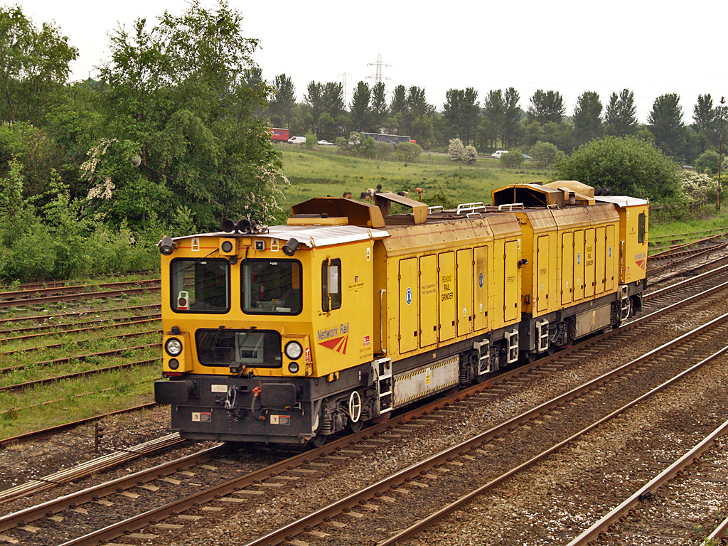 Network Rail Harsco Track Technologies RGH20C Switch and Crossing Rail Grinder DR79261 and DR79271 passes Castleton East Junction on the Up Main line with the 12:30 (Additional) York Plant Works to York Plant Works via Church Fenton, Milford, Castleford, Healey Mills, Hebden Bridge, Brewery Junction, Ashton Moss North Junction, Huddersfield, Healy Mills, Castleford, Milford and Church Fenton (6Z16). Monday 5th June 2006